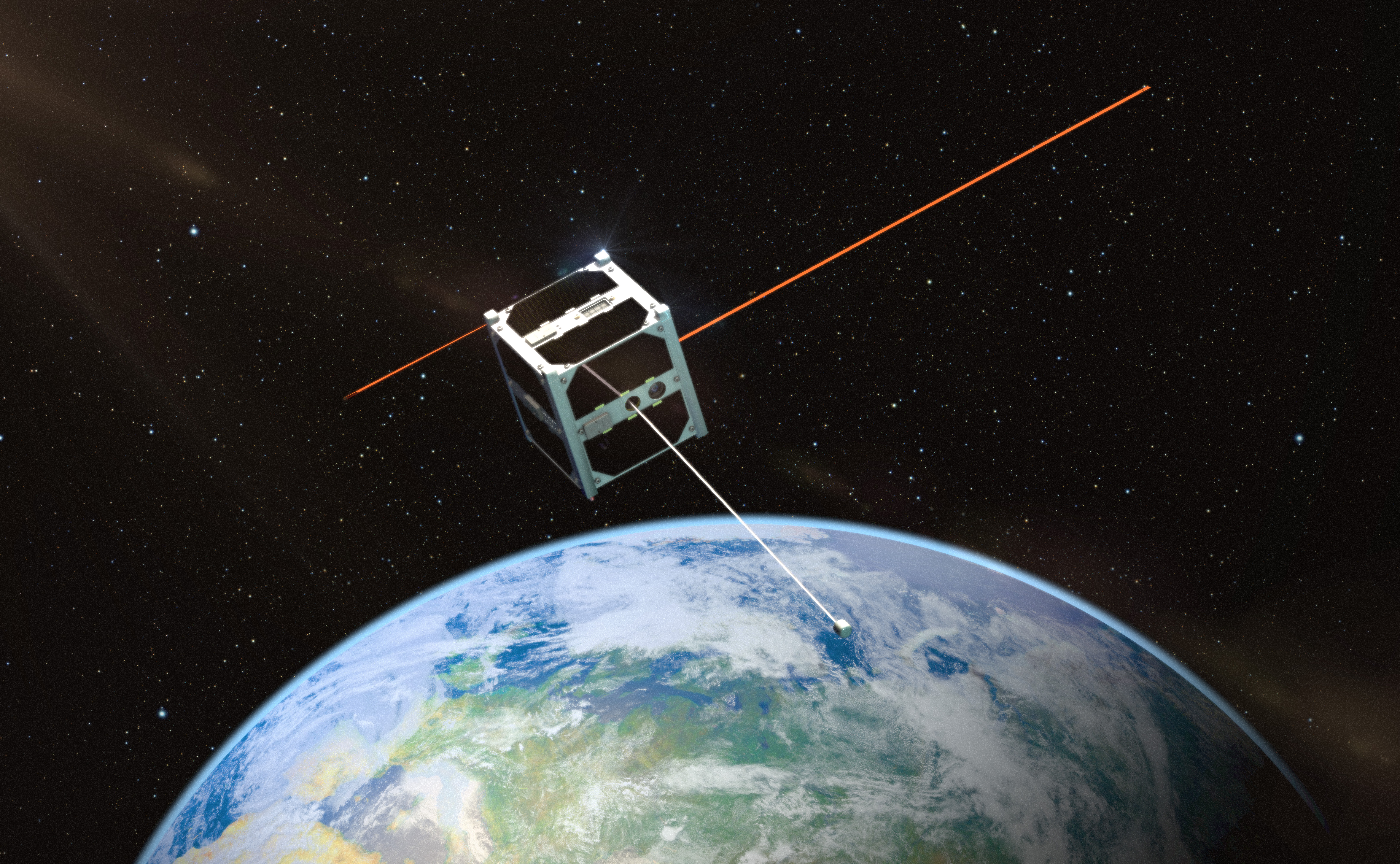 Artist's impression of Estonian nanosatellite ESTCube-1 on orbit.